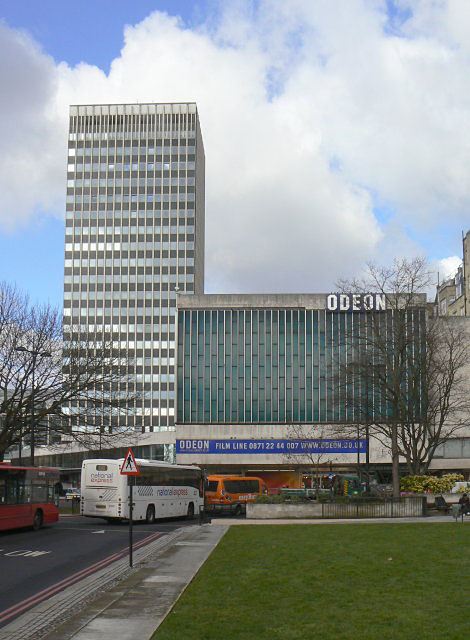 Odeon, Marble Arch The original cinema was demolished in 1964 to make way for this building, opened in 1967 and converted to multi-screen in 1997. At one time it was one of the main showcase cinemas for new releases. behind it is the Marble Arch Tower.